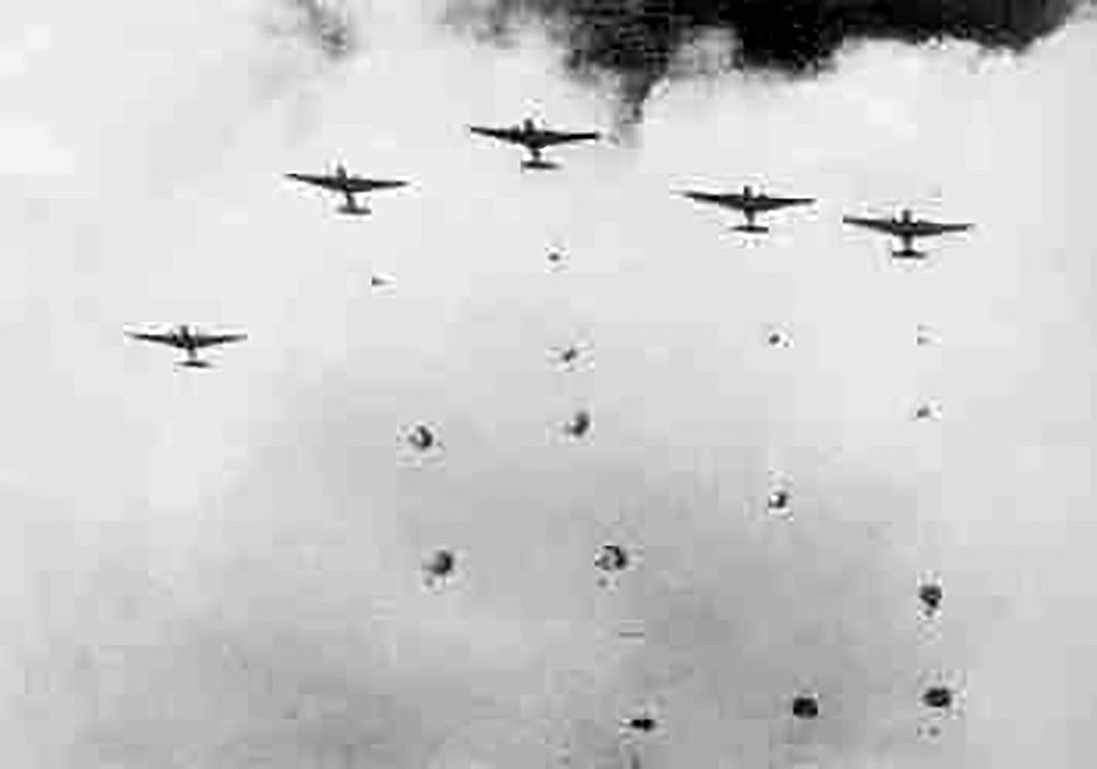 Battle of Menado: V-formation of Type 96 “Tina” transports dropping men of the Yokosuka 1st SNLF over Langoan airfield, Manado, Celebes, in January 1942